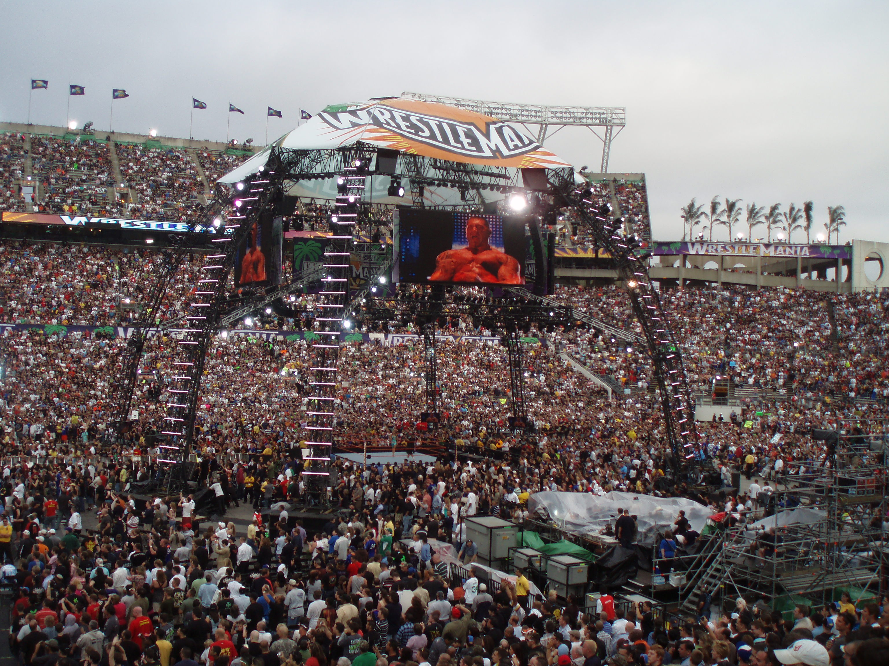 Ring @ WrestleMania XXIV